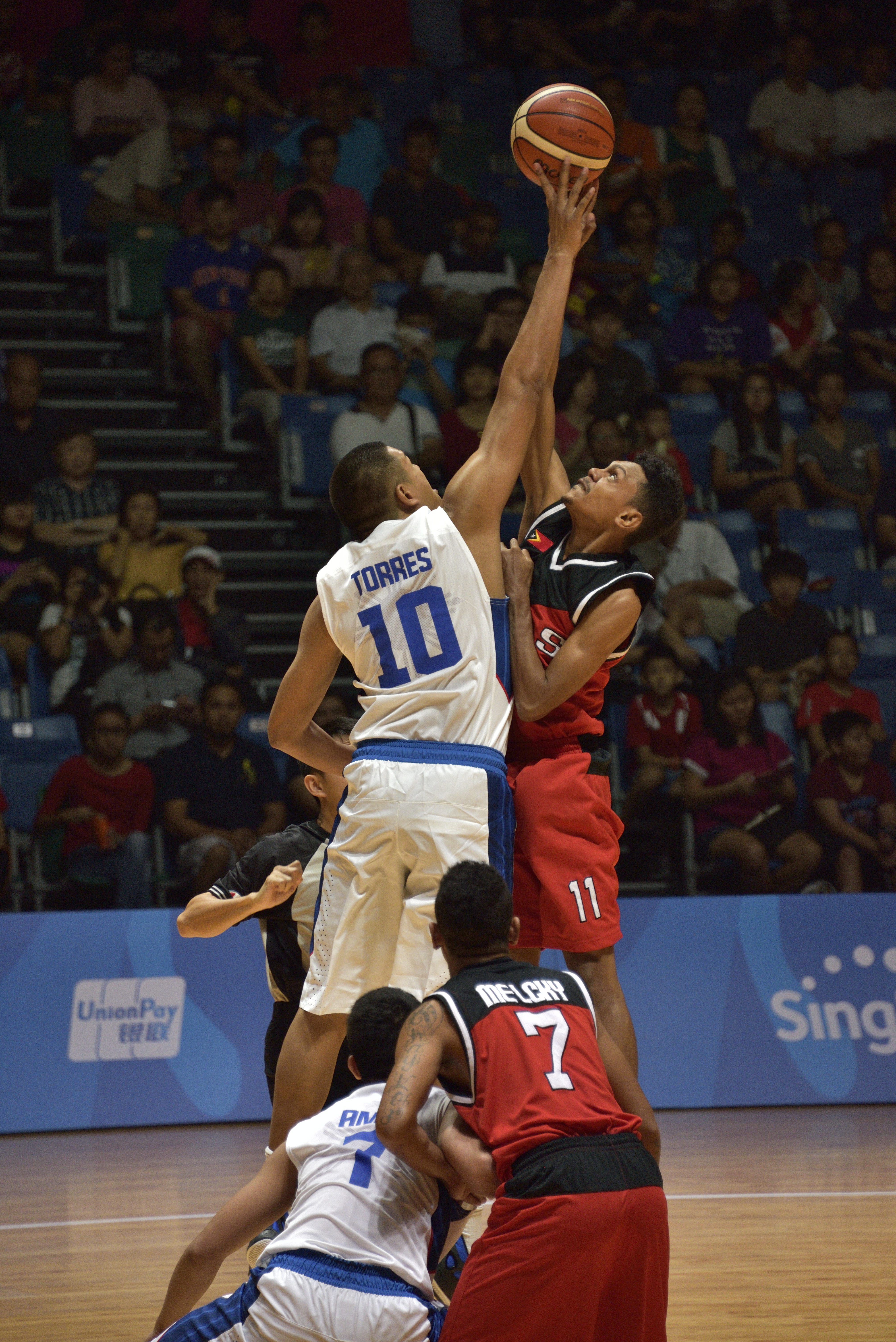 The Philippine and Timorese national basketball team in a match at the 2015 Southeast Asian Games men's basketball tournament. Players: Norberto Brian Torres (no.10) Paulo das Dores (no.11).